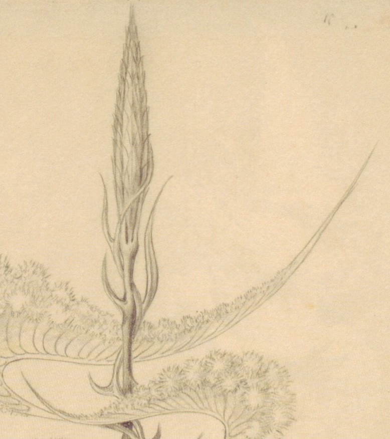 ca. 1900 (pencil and charcoal) by Hermann Obrist